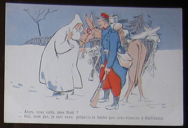 It's an old post card, published in 1914